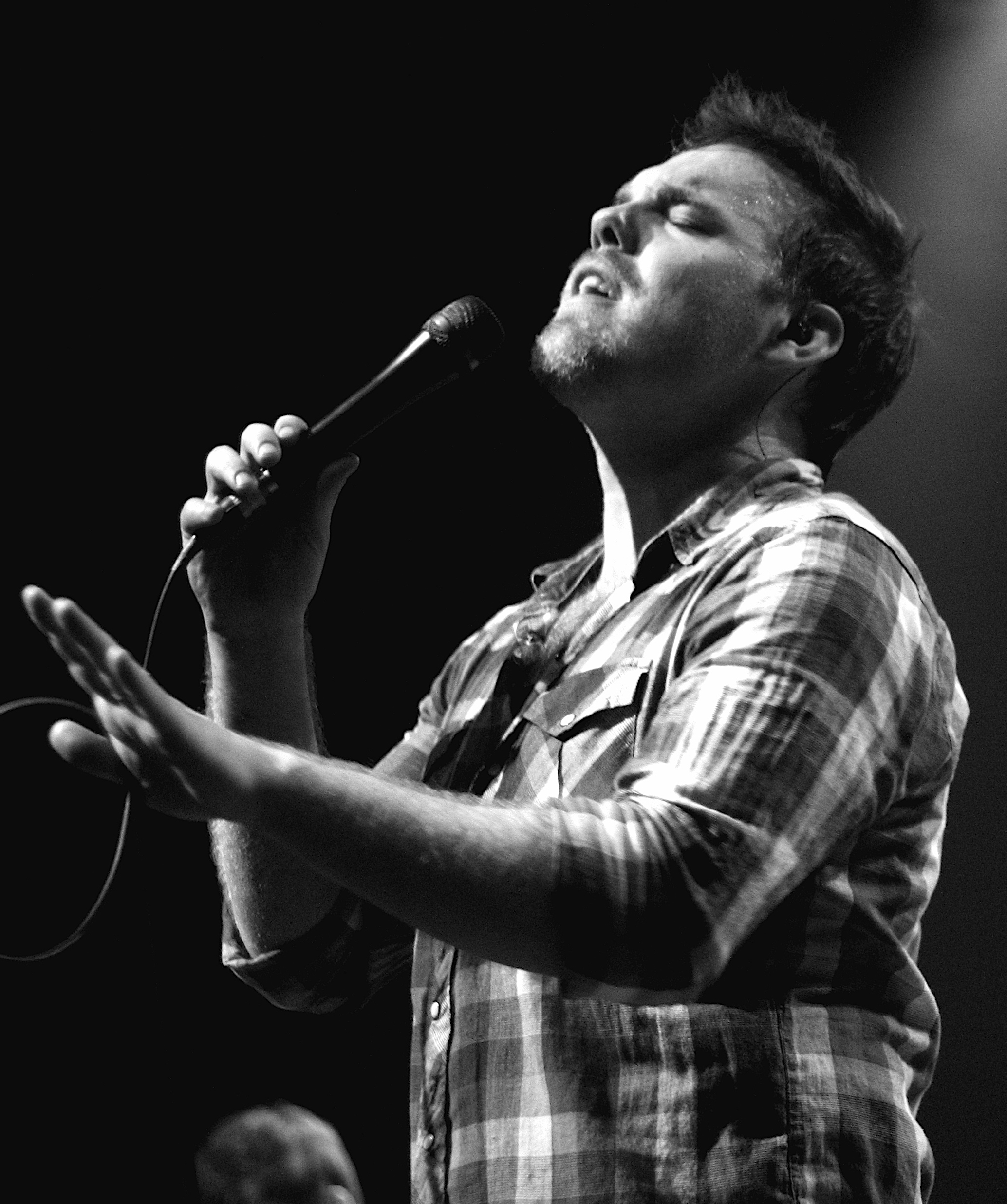 Marc Broussard performing at the Neighborhood Theatre in Charlotte, North Carolina on March 5, 2011.